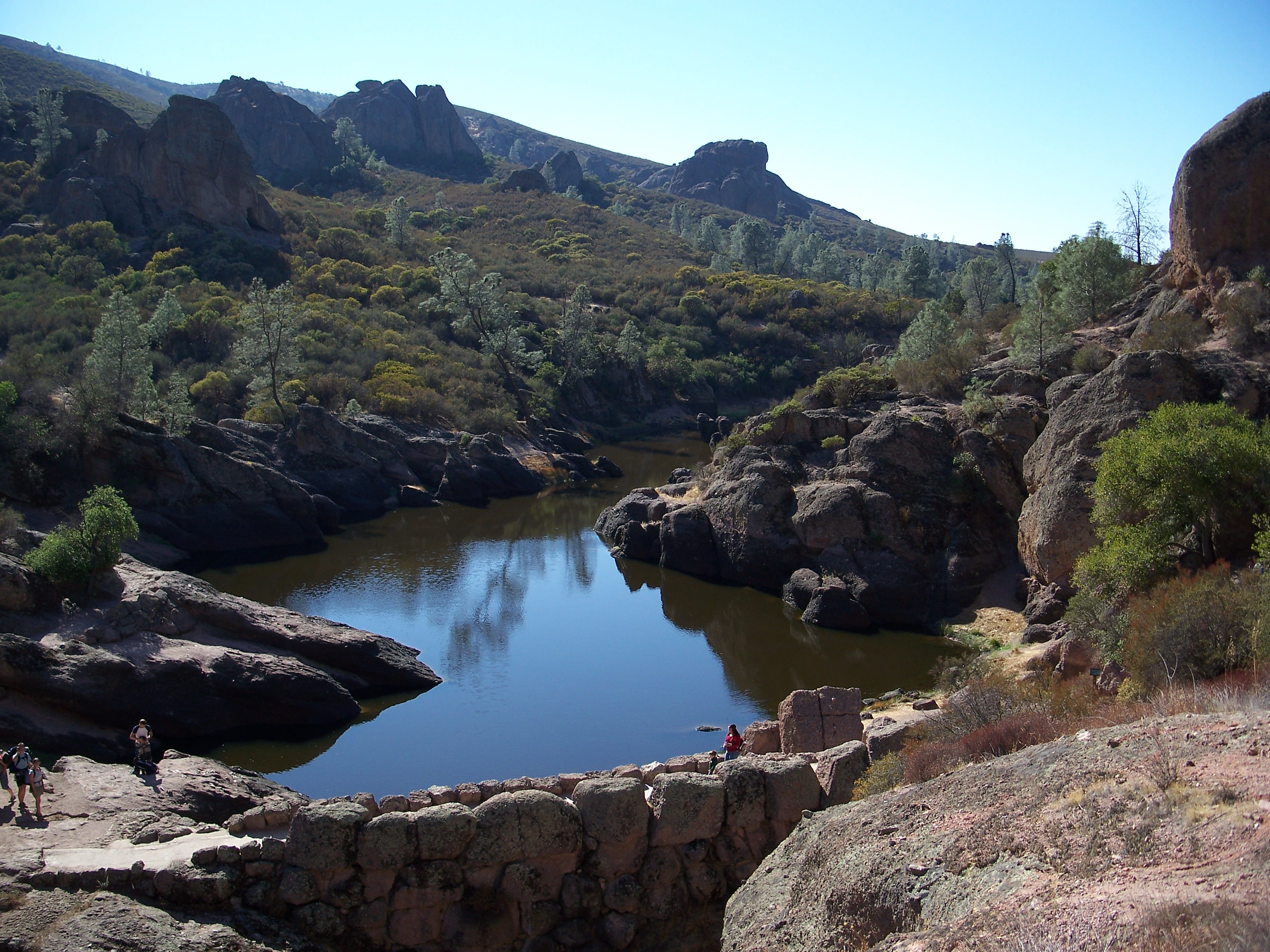 Bear Gulch reservoir. Pinnacles National Monument. California, USA